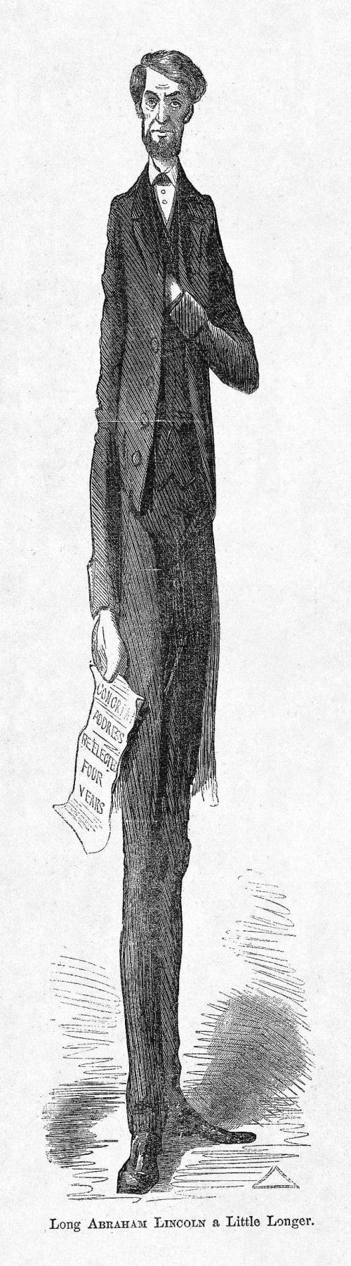 "Long Abraham Lincoln a Little Longer". US President Abraham Lincoln depicted in elongated caricature, a comment on his re-election to the Presidency.